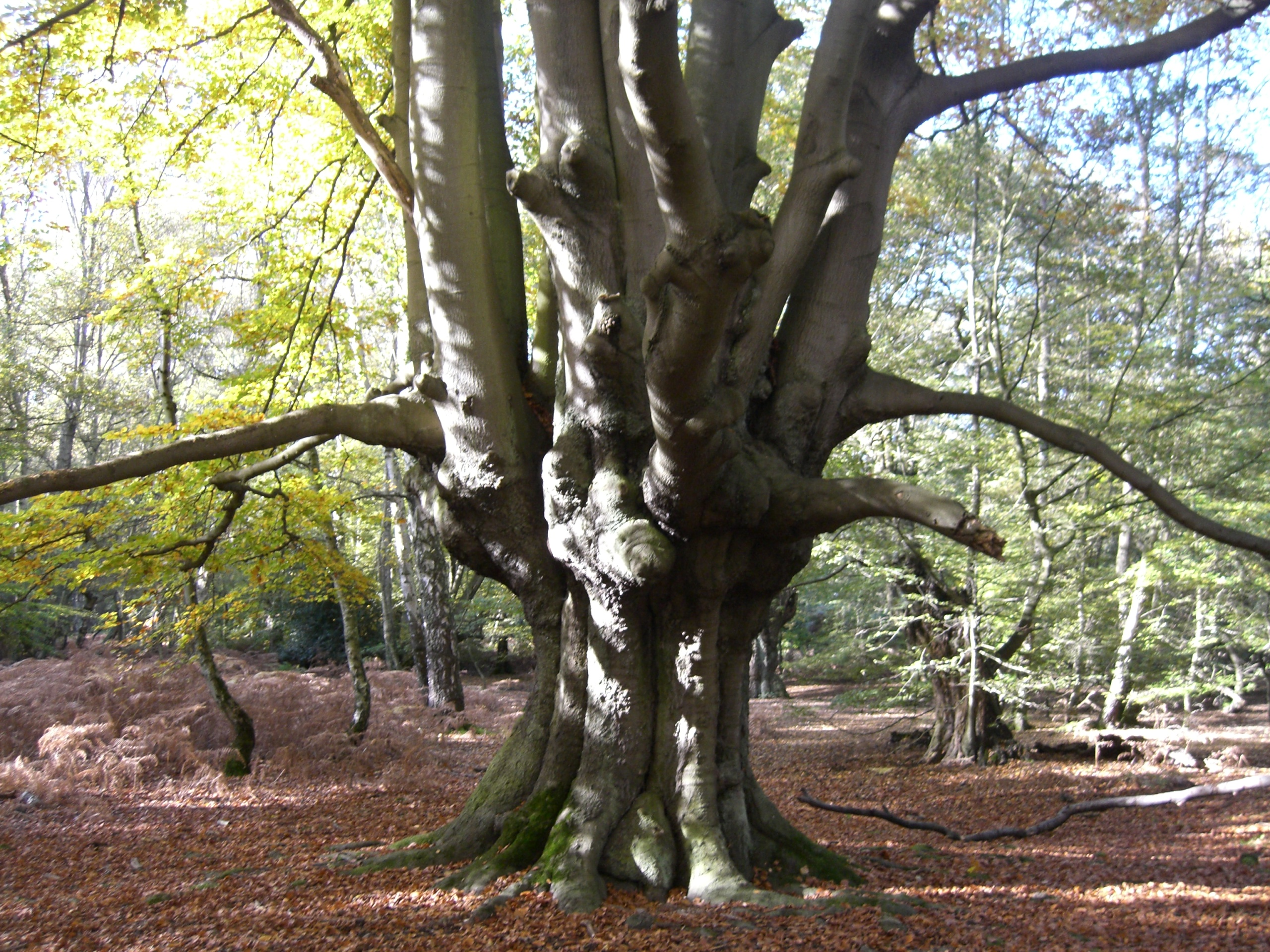 Photo of a tree in Epping Forest. Having once been pollarded, it has been allowed to overgrow.